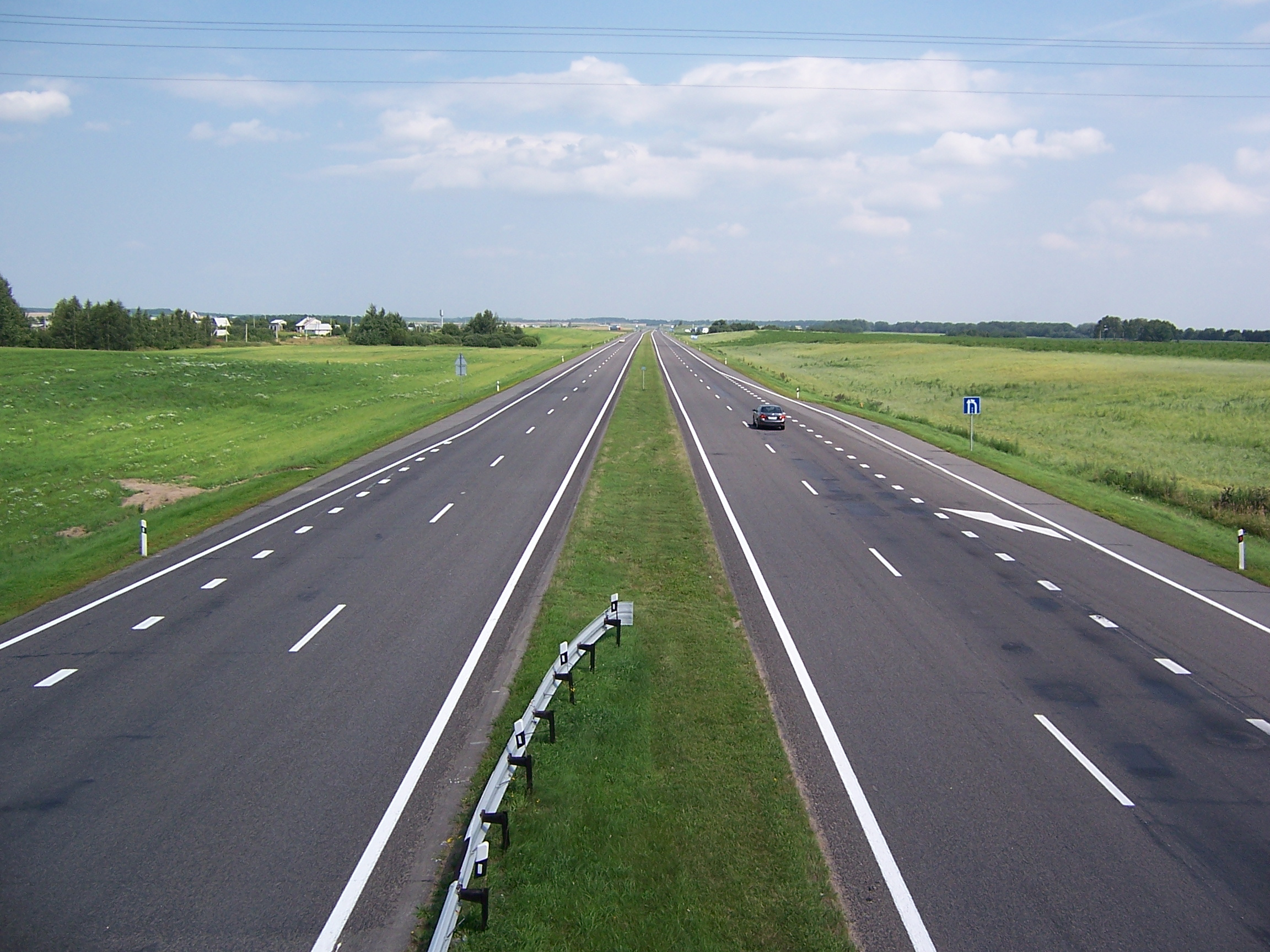 View to M1 highway (Belarus) / E30 at the intersection with the road Pobednoe-Fanipol.